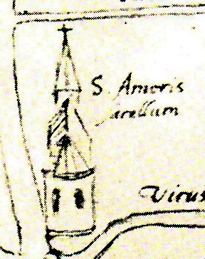 Maastricht, the Netherlands. View of the former chapel of Saint Amor at Sint Amorsplein. Detail of a map by Simon de Bellomonte, c 1570.